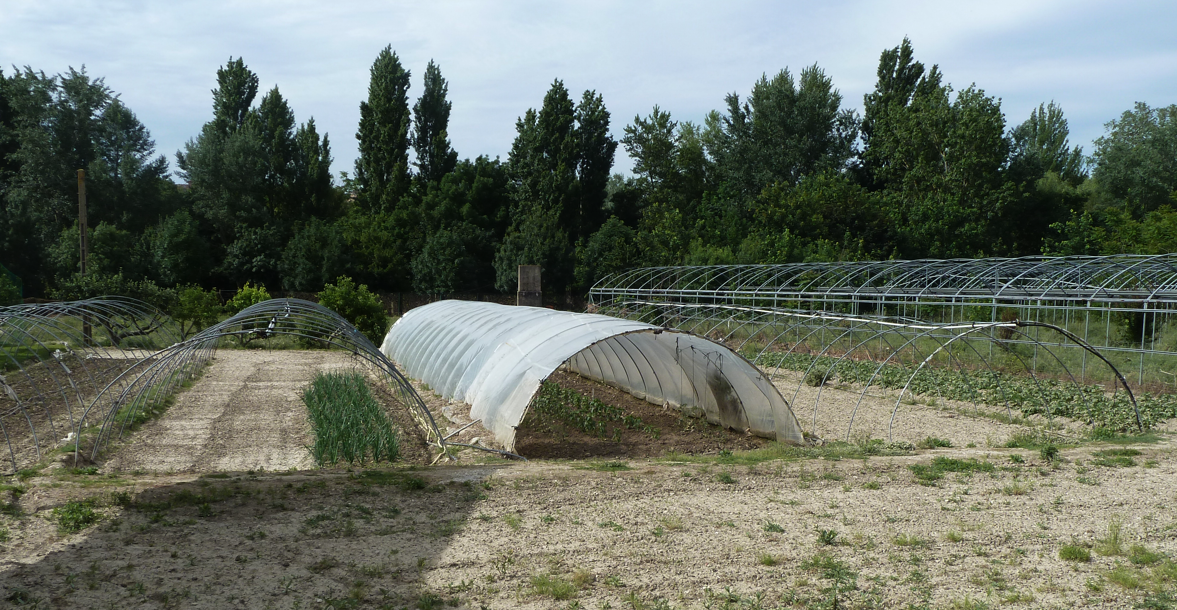 Farming in the district of San Jorge/Sanduzelai (Pamplona/Iruña) is virtually nonexistent because it is all developed land. On the lands that lie between the football field and Miluze Bridge still some market gardens survive.